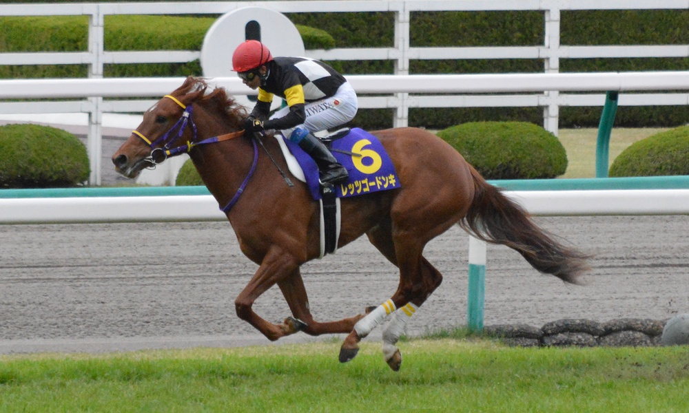 Japanese race horse Let's Go Donki at Hanshin racecourse. Hanshin (JPN) 12 Apr 2015 Ouka Sho (Japanese 1000 Guineas) (Grade 1) (3yo Fillies) (Turf) 1m Firm RankHorse NameOddsAgeWgtTrainerJockey1stLet's Go Donki (JPN)92/10F38-9Tomoyuki UmedaYasunari Iwata2ndCulminar (JPN)222/10F38-9Naosuke SugaiKenichi Ikezoe3rdContessa Thule (JPN)269/10F38-9Takayuki YasudaChristophe-Patrice Lemaire4th - 18th/omission